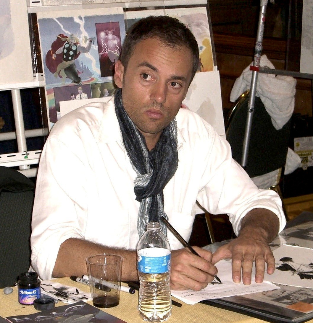 Comic book creator Alex Maleev at the Big Apple Convention in Manhattan, October 2, 2010. Photo by Luigi Novi. This photo may be used, modified and published for any purpose, only if a easily visible credit to the photographer is placed near the photo in each instance in which it is used. (See licensing information below.) Publication of this photo without this proper attribution constitutes copyright infringement. For more information on my photos, you can contact me here.